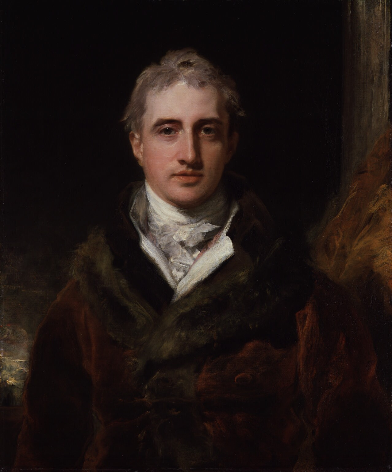 Portrait of Robert Stewart, Viscount Castlereagh, 2nd Marquess of Londonderry